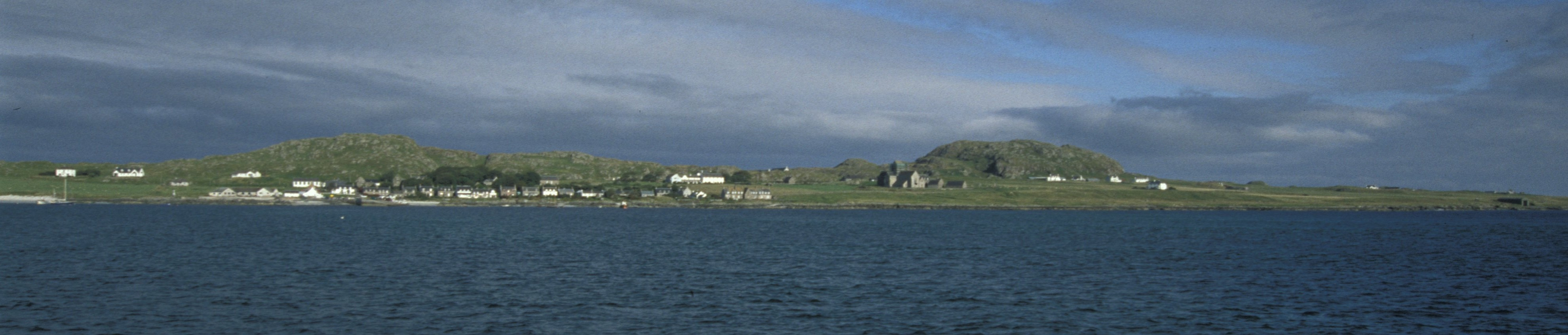 Iona (island), Scotland, view from the Fionnphort-Iona ferry